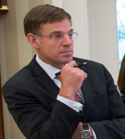 President Barack Obama talks with advisors in the Oval Office, June 25, 2013. Pictured, from left, are: Jeff Eggers, Senior Director for Afghanistan and Pakistan; Lisa Monaco, Assistant to the President for Homeland Security and Counterterrorism; Tony Blinken, Deputy National Security Advisor; National Security Advisor Tom Donilon; Amb. Susan Rice, the incoming National Security Advisor; and Doug Lute, Deputy Assistant to the President and Coordinator for South Asia. (Official White House Photo by Pete Souza)